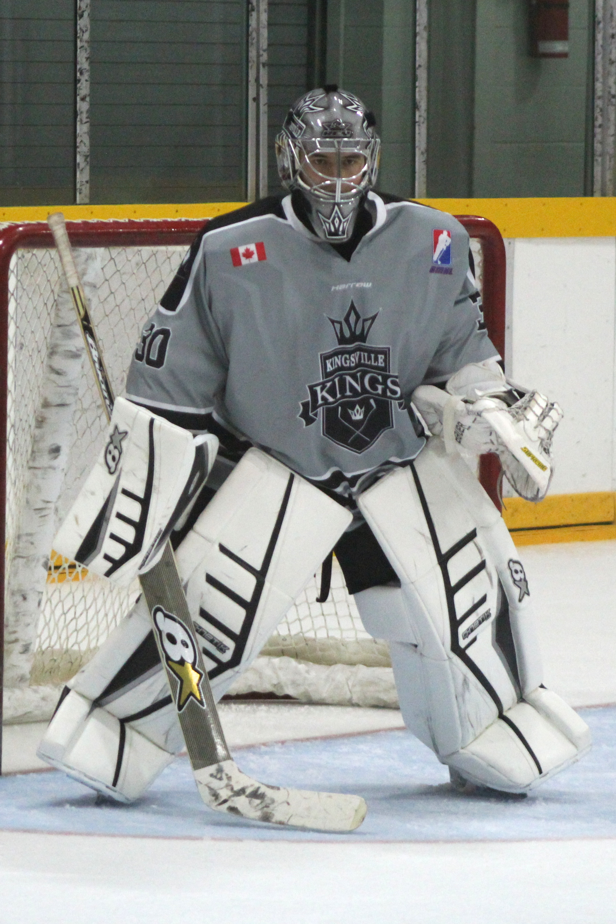 These images of GMHL Action action during the 2015-16 season are taken by Devan Mighton.